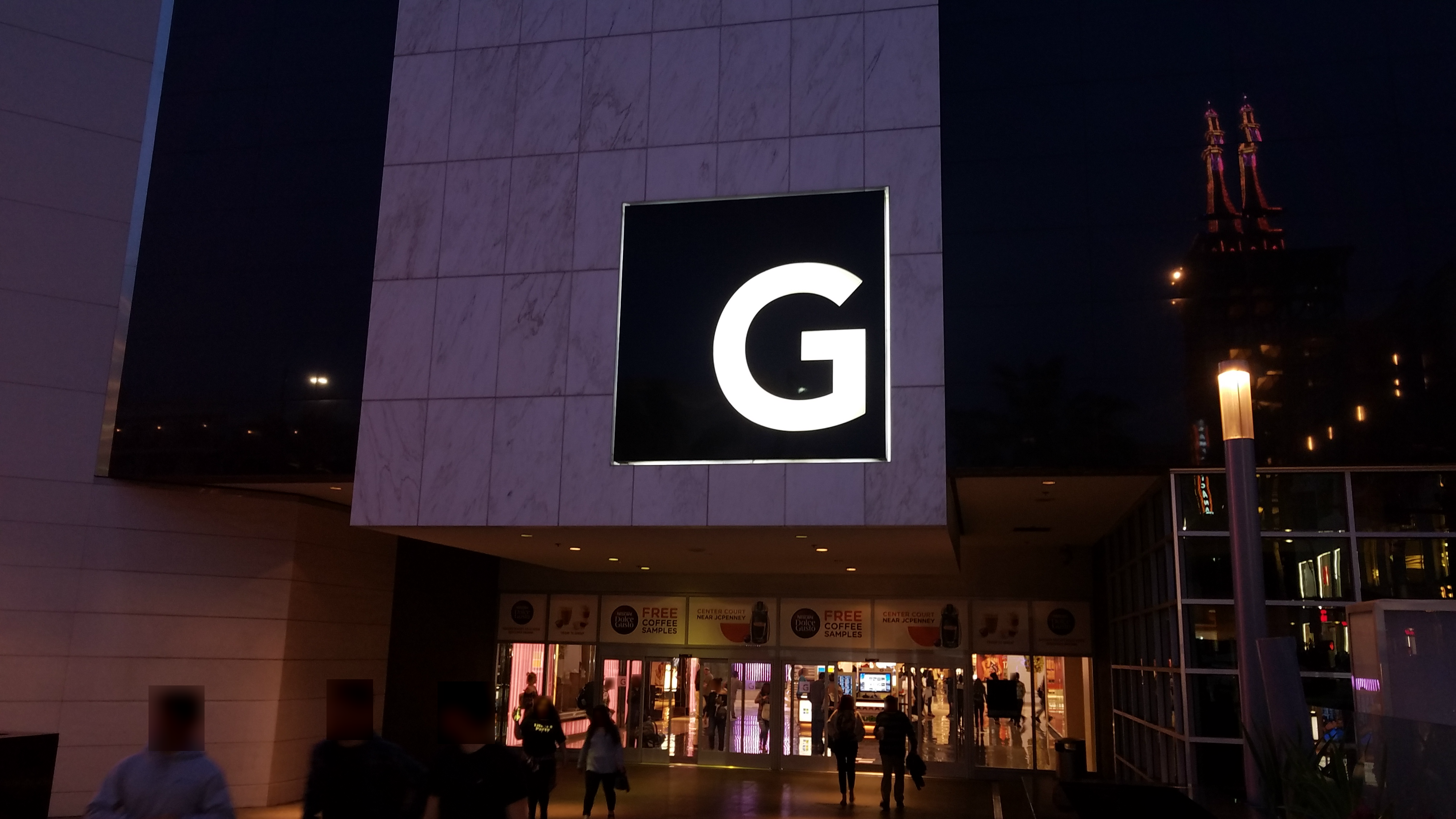 The front entrance to the Glendale Galleria, Glendale, California, photographed at sunset (7:53 PM).